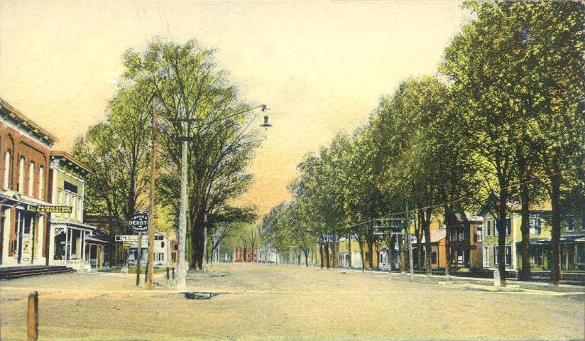 Lower Main Street (looking west), Poultney, Vermont; from a c. 1906 postcard published by The American News Company, New York.